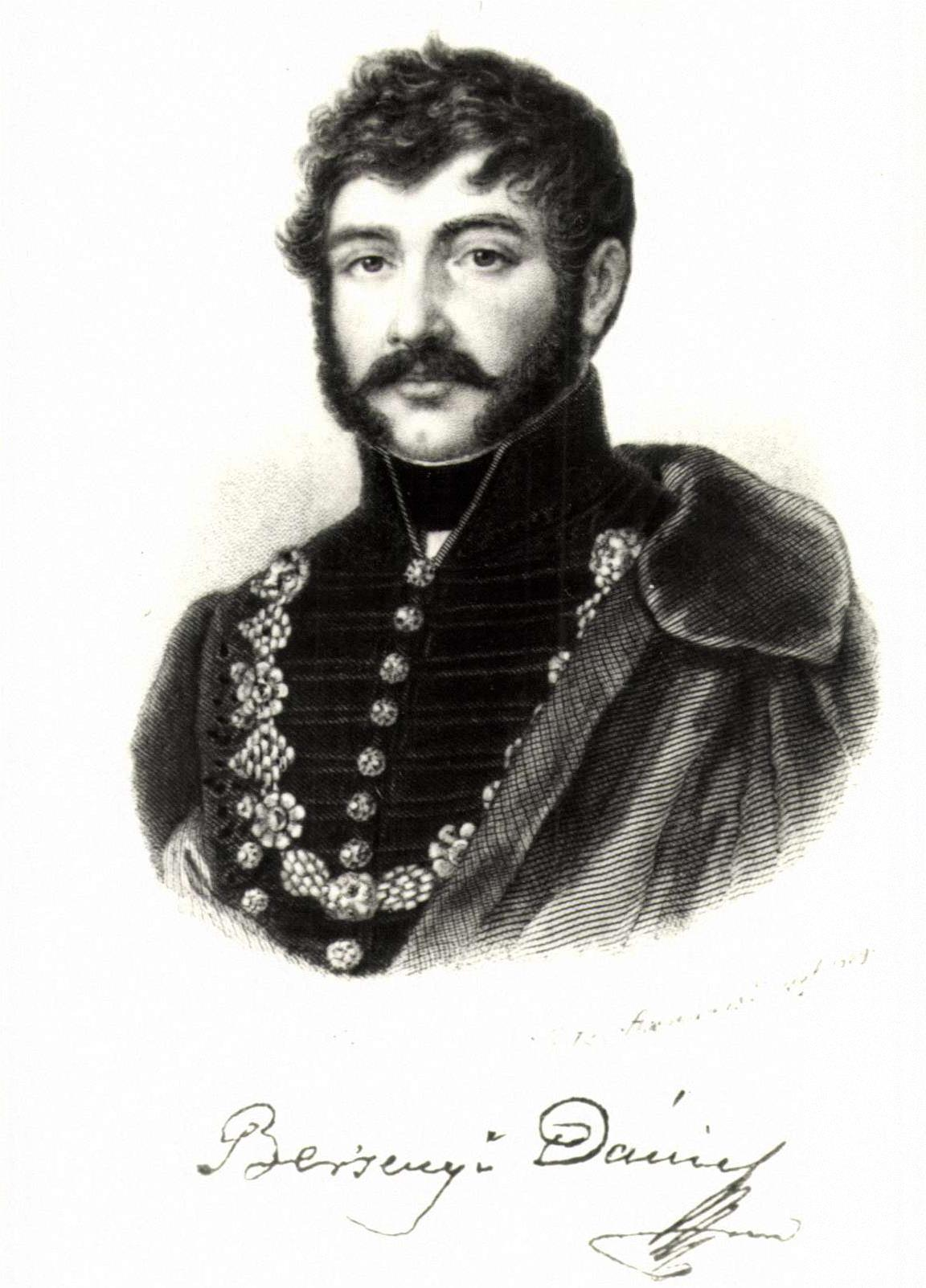 Portrait of Dániel Berzsenyi hungarian poet by Barabás Miklós.